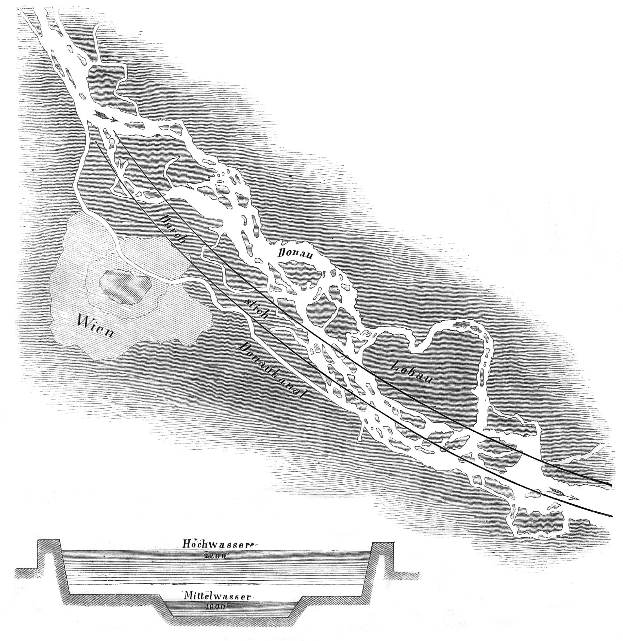 no caption